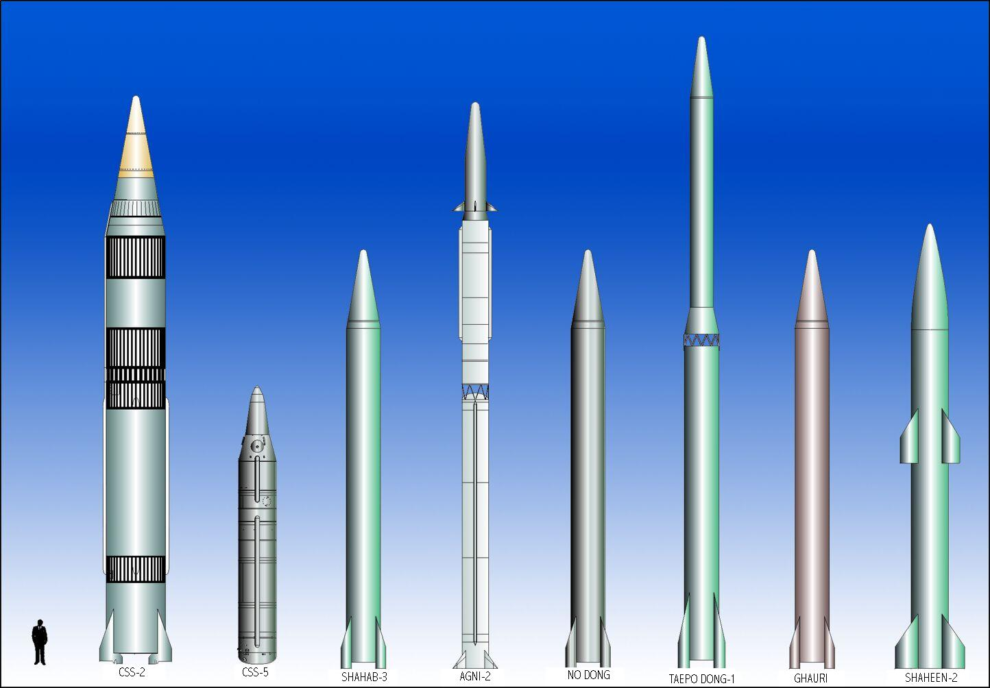 MRBM (Medium range ballistic missiles) and IRBM (Intermediate range ballistic missiles) Comparison.